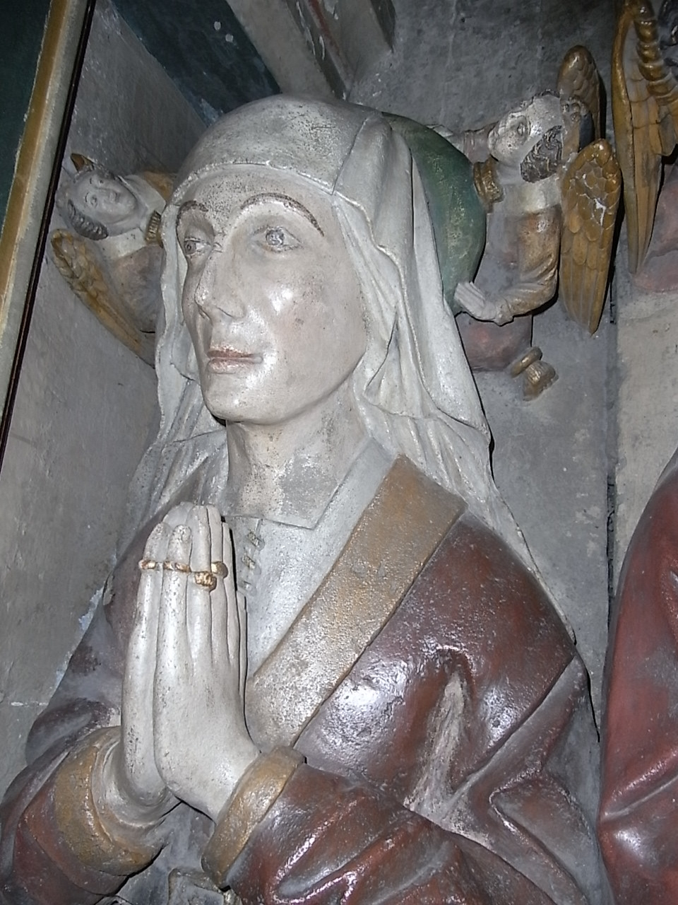 An effigy of Joan Burton (died September 1467), the wife of William II Canynges (c. 1399–1474), in their tomb in St Mary Redcliffe, Bristol, England, UK. The tomb lies along the south wall of the south aisle.